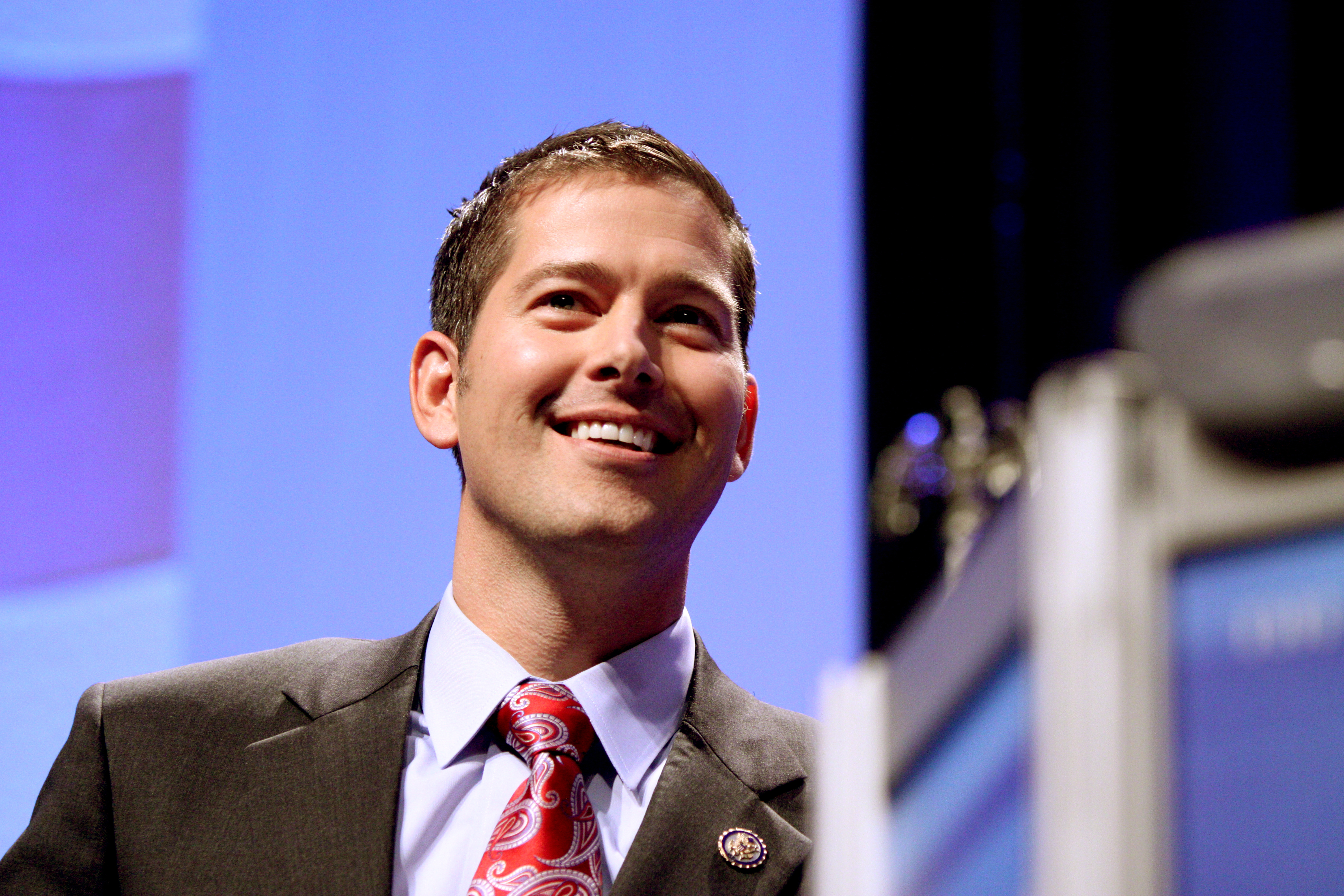 Congressman Sean Duffy of Wisconsin speaking at CPAC 2011 in Washington, D.C.